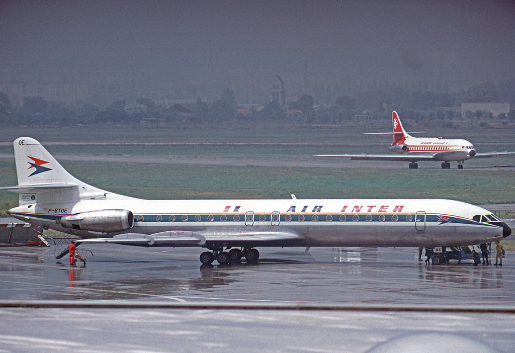 Sud SE-210 Caravelle 12 F-BTOE of Air Inter at Paris Orly in 1974